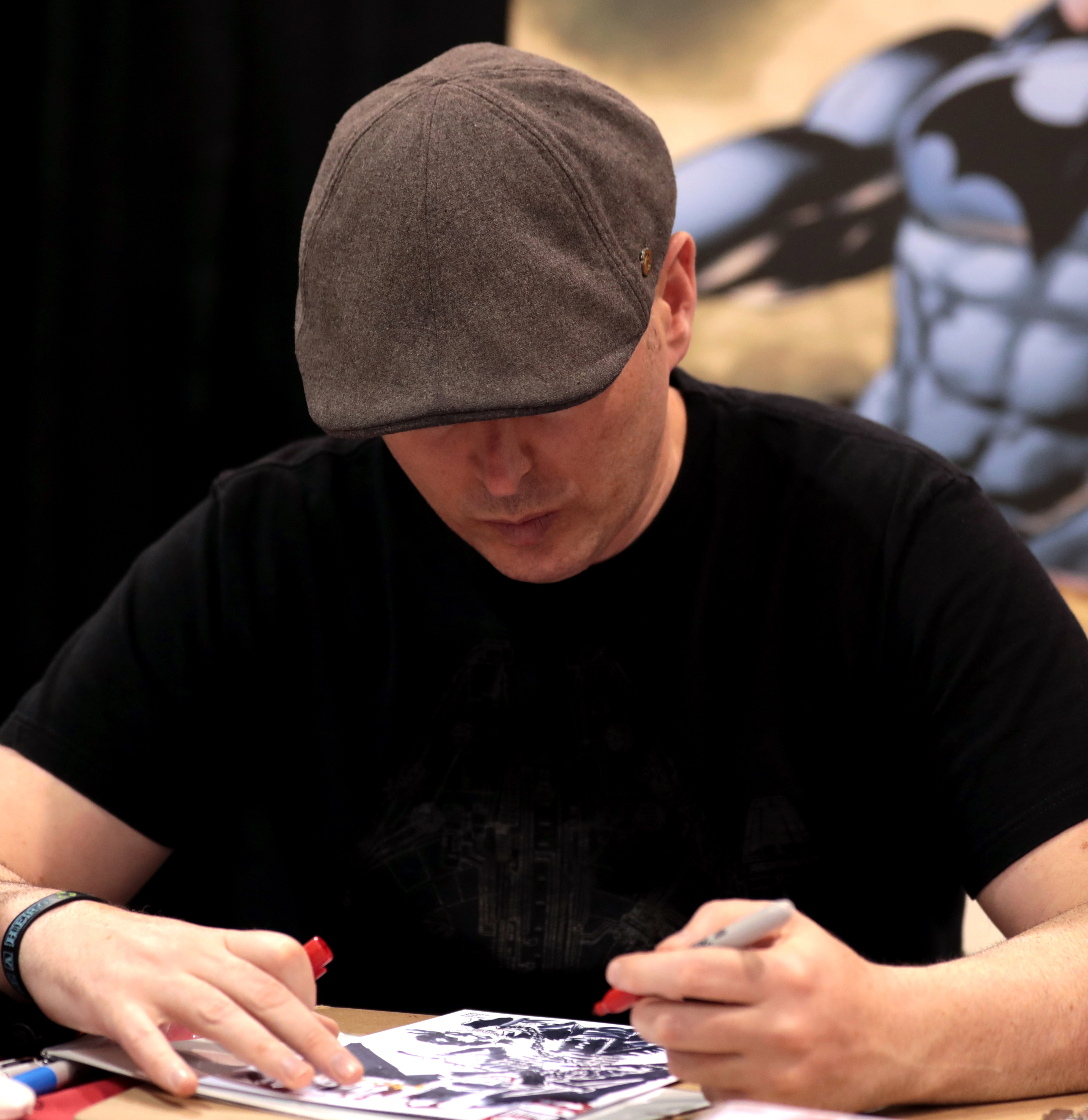 David Baron speaking at the 2019 Phoenix Fan Fusion in Phoenix, Arizona.